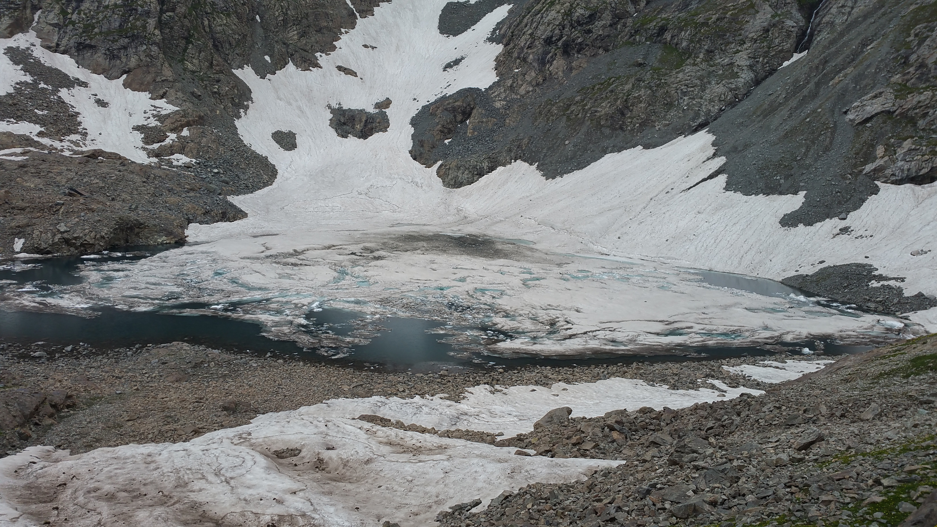 The freezing Pari (Angles Lakes)